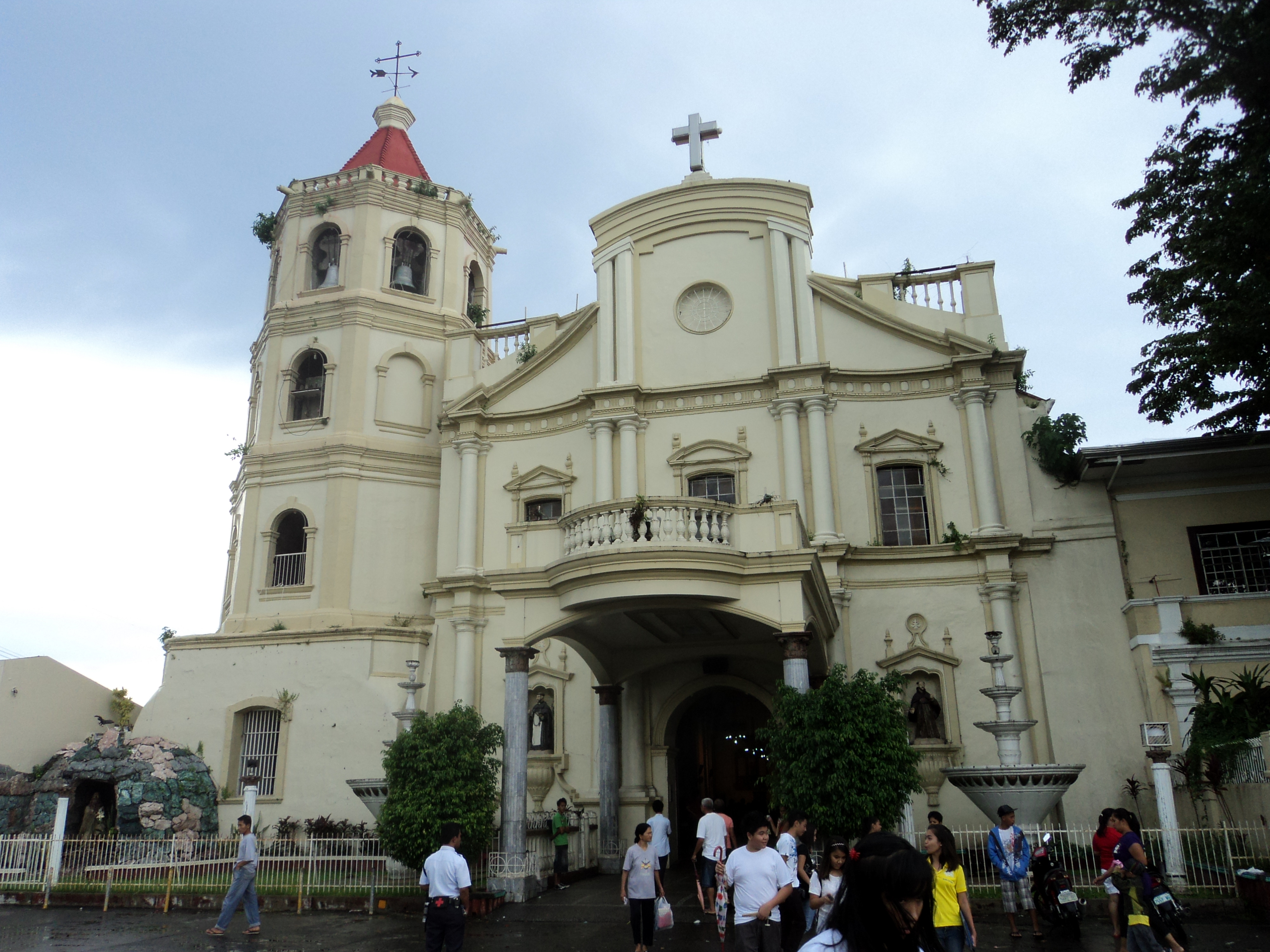 St. Paul, the First Hermit Cathedral in San Pablo City